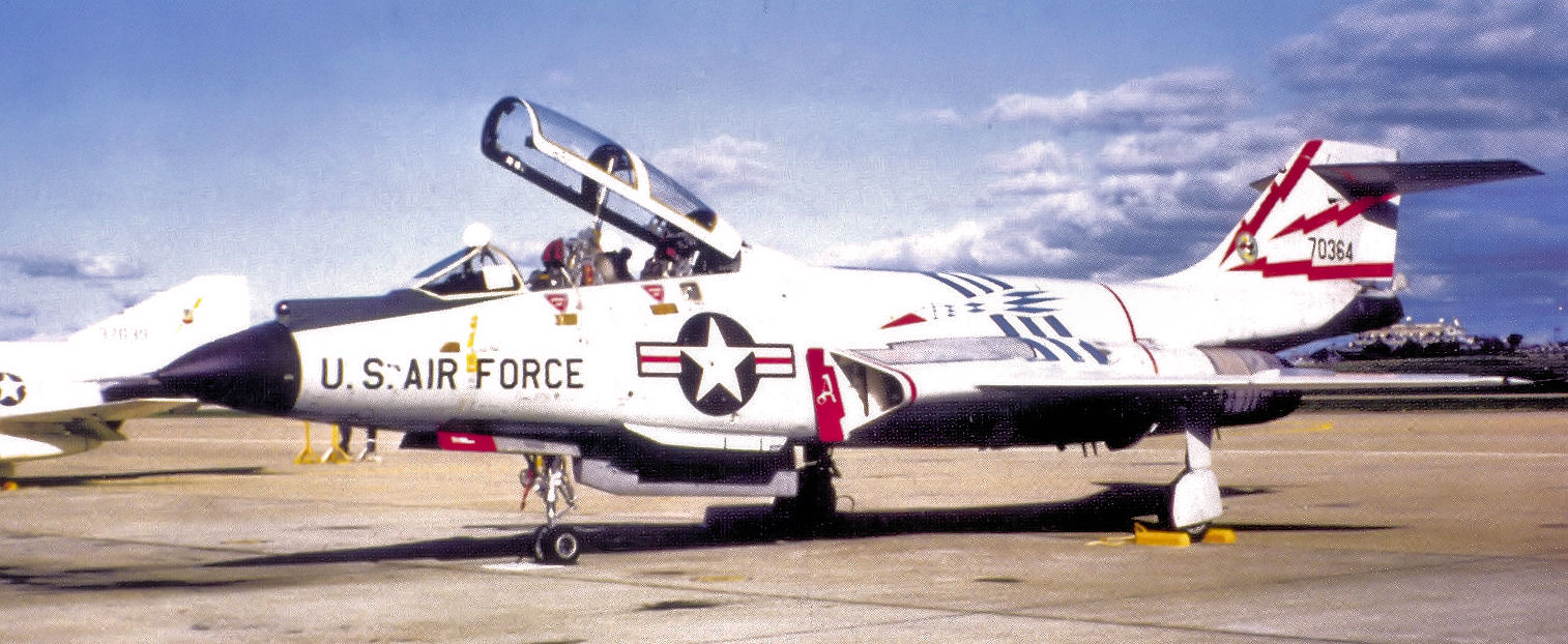 60th Fighter-Interceptor Squadron McDonnell F-101B-95-MC Voodoo Otis Air Force Base, Massachusetts, 1970. Sold to to Canadian Armed Forces in 1971. Marked as Squadron Commander's aircraft. 60th FIS was longest-serving ADC F-101B Squadron.